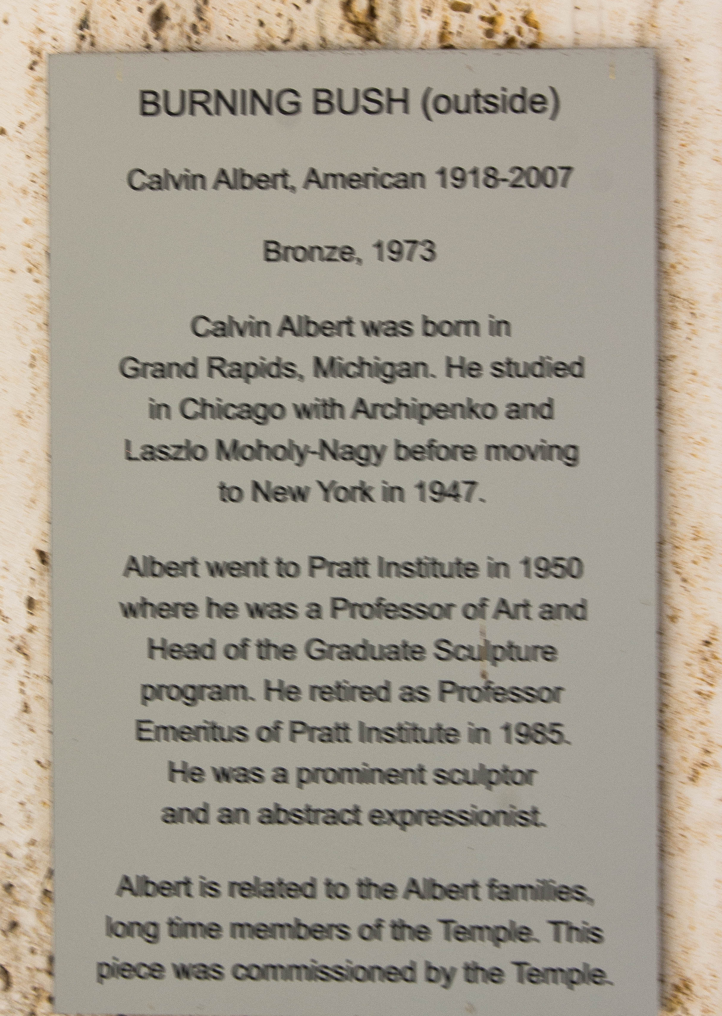 Temple Emanuel (Grand Rapids, Michigan)